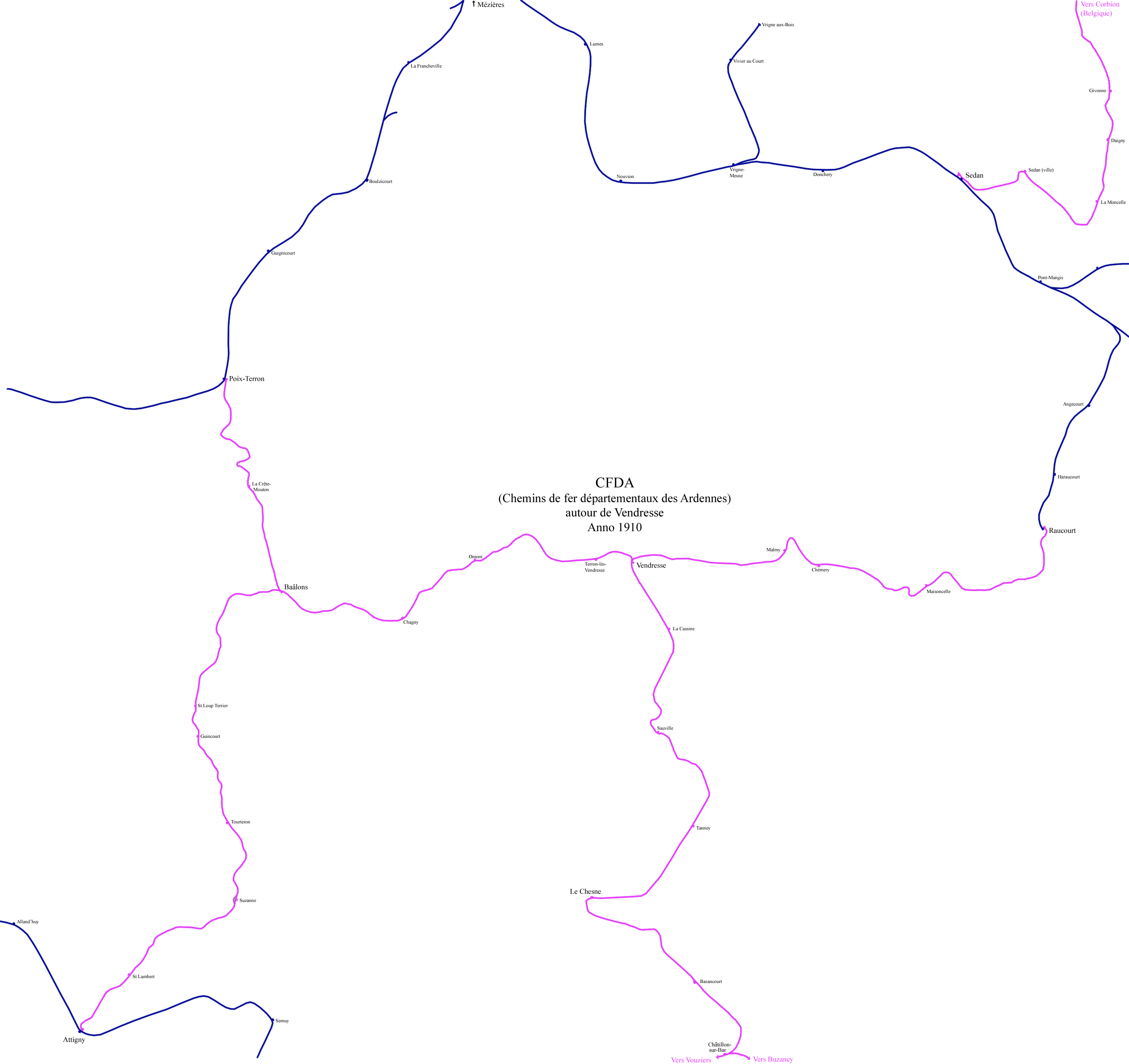 Metric local railway network of the CFDA (Chemins de fer départementaux des Ardennes) around Vendresse between 1910 and 1924. Also shown is the tramway between Vrigne-Meuse and Vrigne-au-Bois.